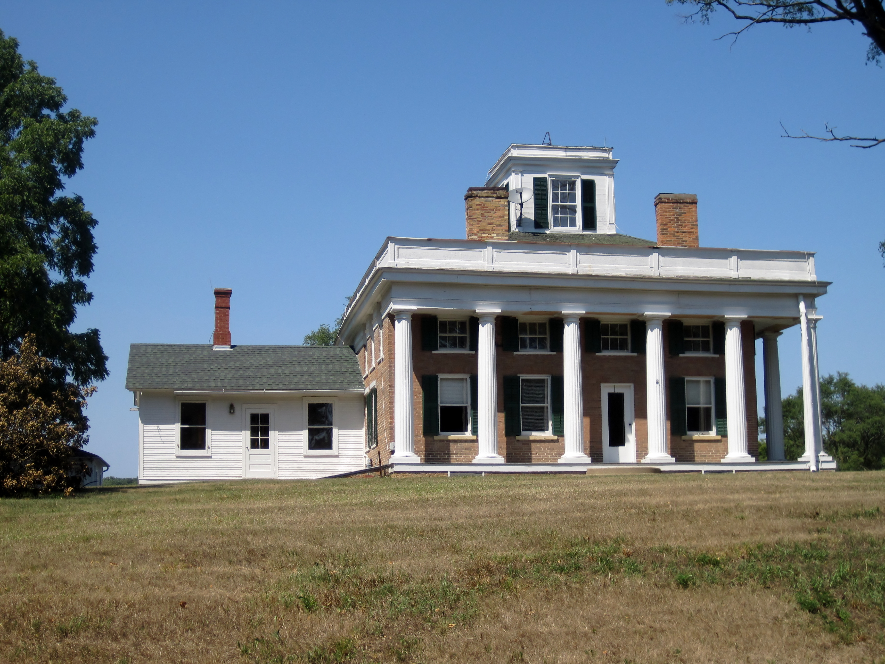 Terwilliger House near Woodstock, IL